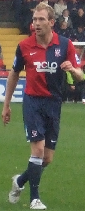 Simon Rusk.